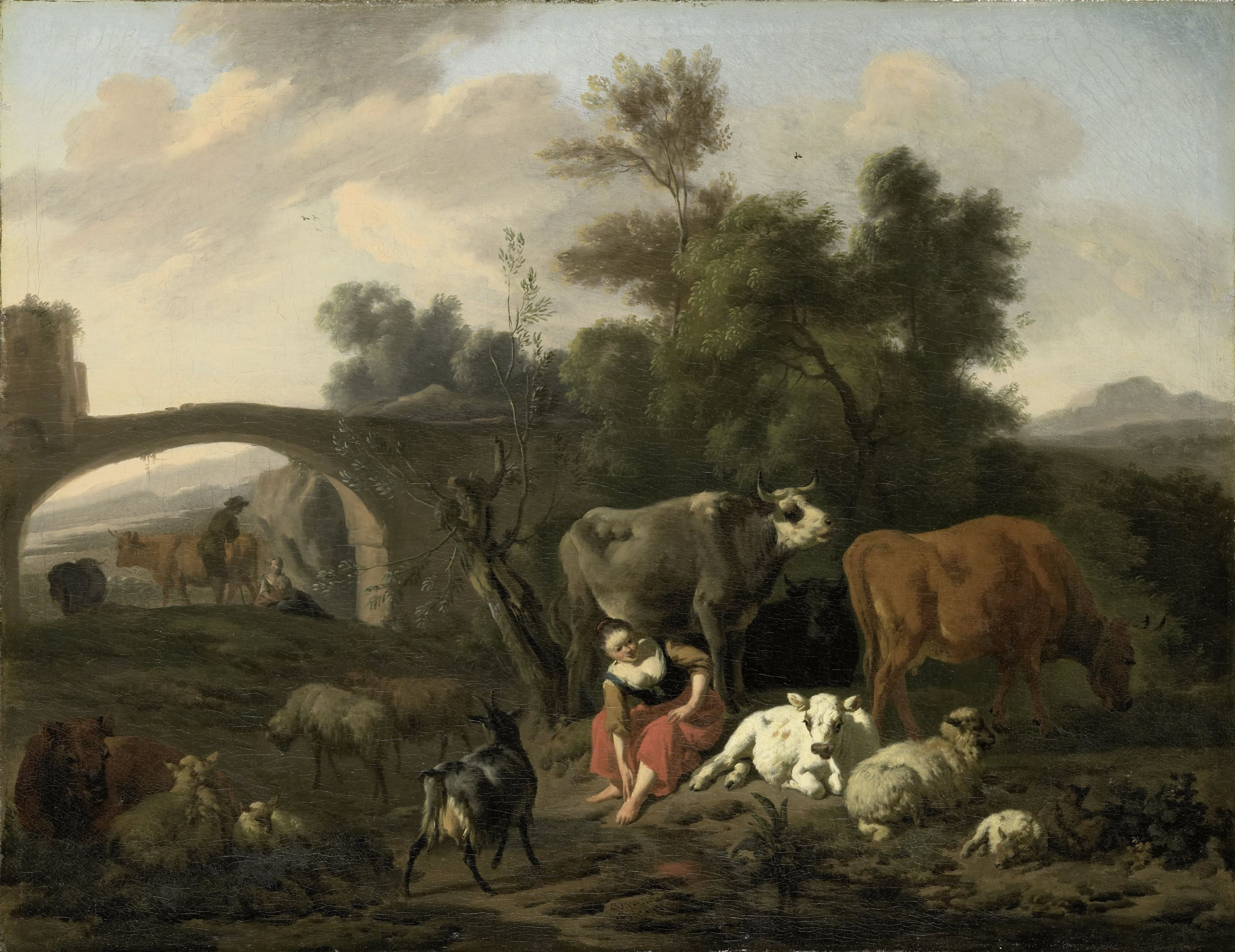 Italian landscape with herders and cattle. On the left a stone bridge is visible.